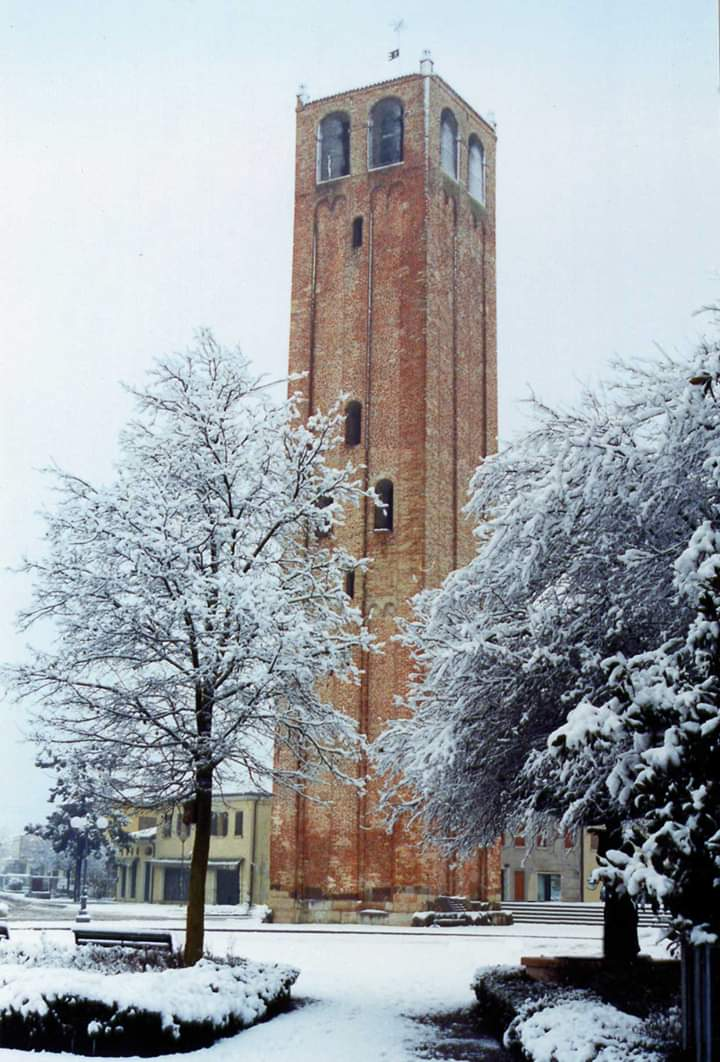 Millenary Tower with snow